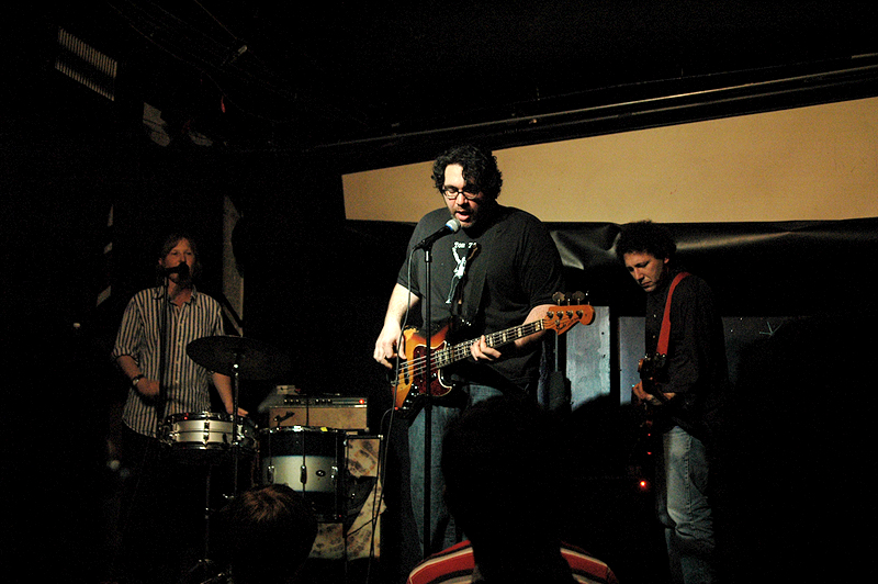 Yo La Tengo. From left to right: Georgia Hubley, James McNew, Ira Kaplan. ( La Tengo